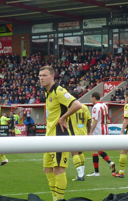 Kevin McDonald for Sheffield United